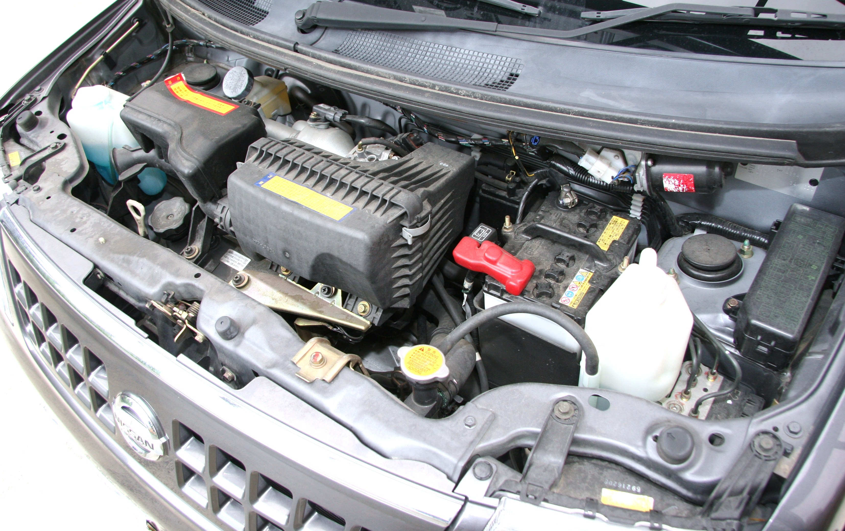 NISSAN OTTI engine room (Mitsubishi 3G83 without turbo)